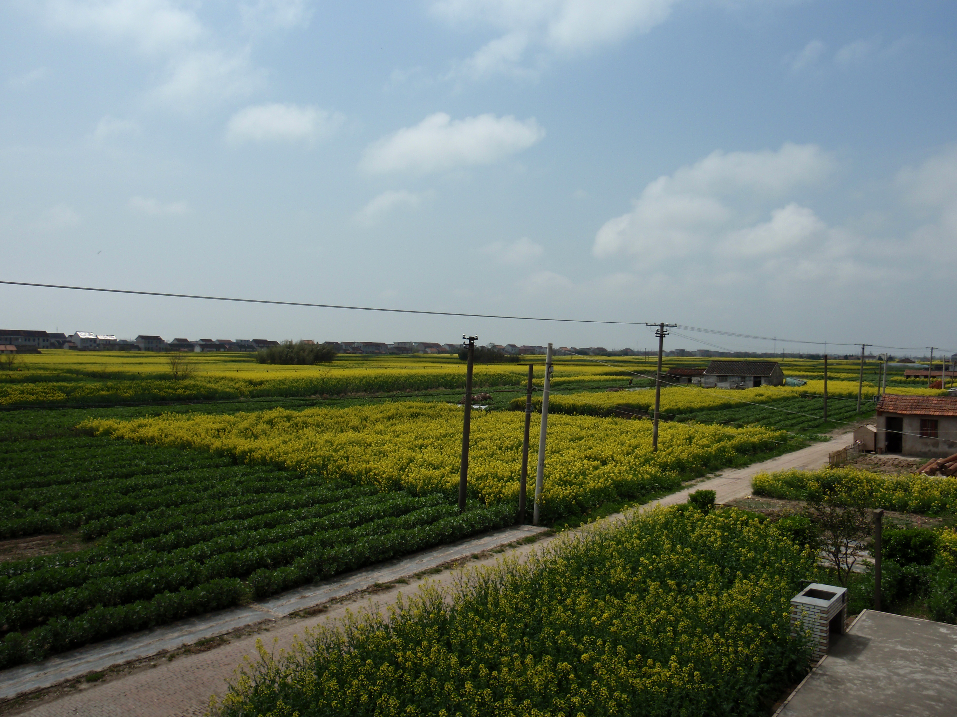 Rape flowers